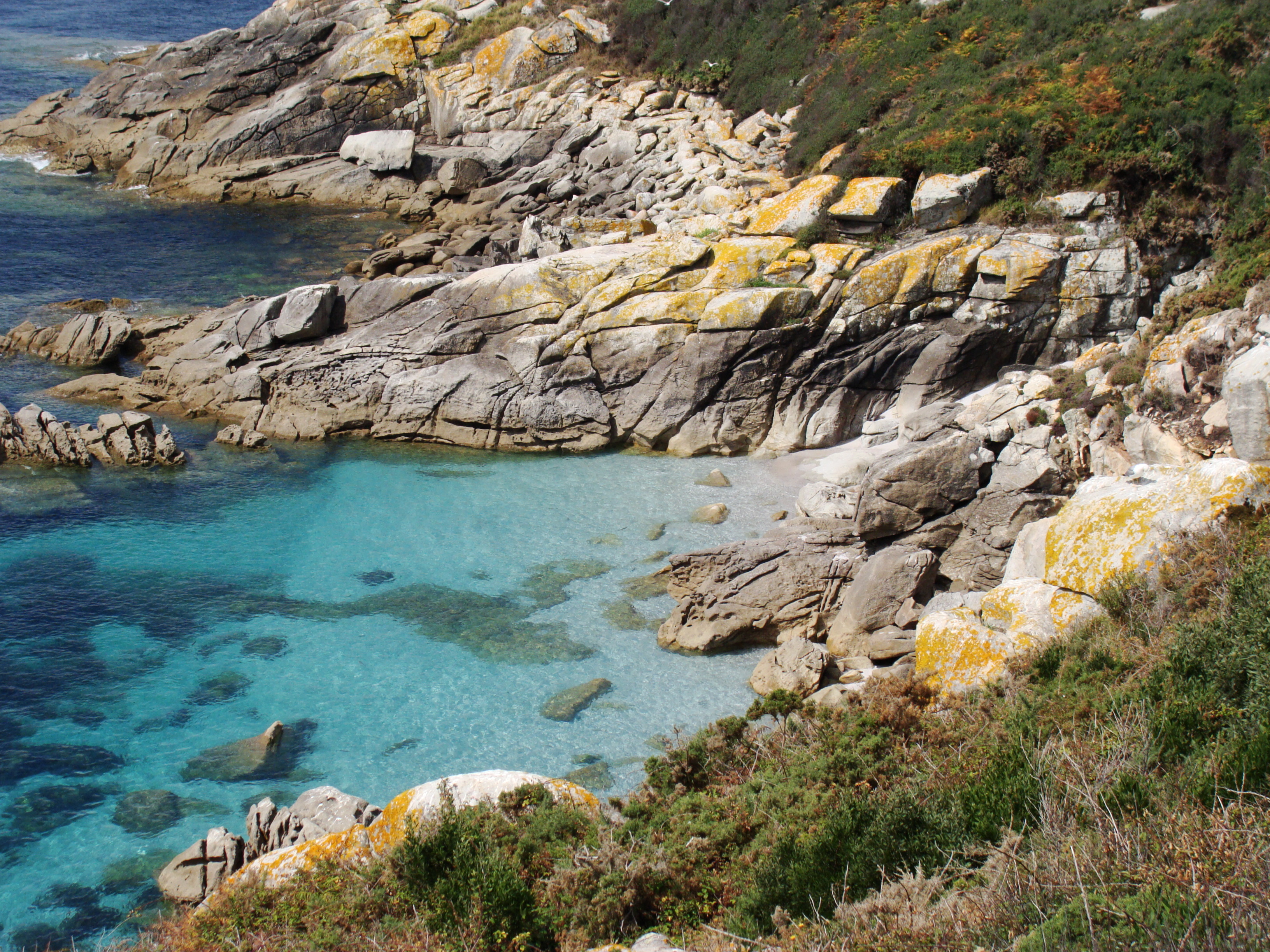 Small cliff in Cíes Islands, Pontevedra, Galicia, Spain.